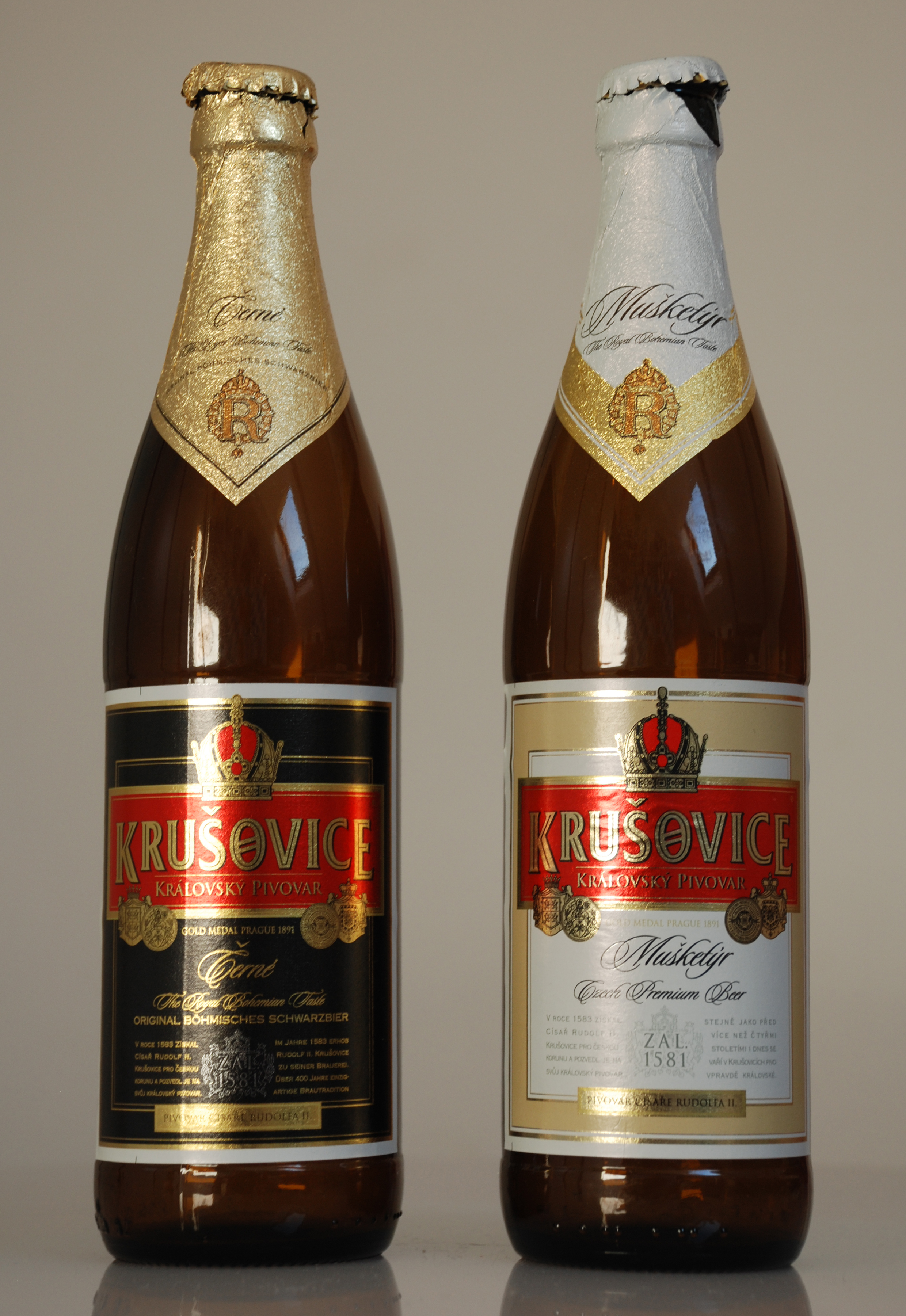 Empty 50cl beer bottles, from left: Krušovice Černé and Krušovice Mušketýr.